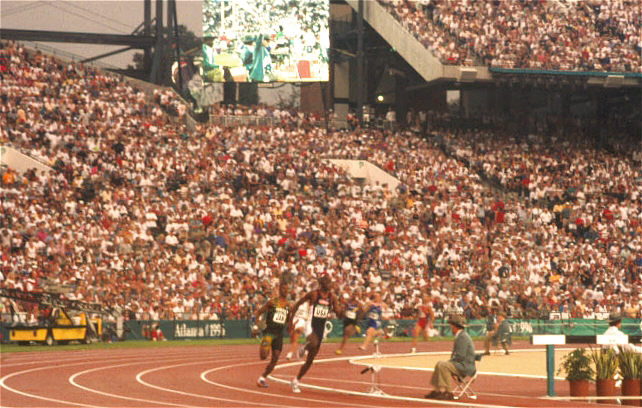 1996 Atlanta Olympics--track and field, men's 4x400m relay. Olympic Stadium. Crowd scene.